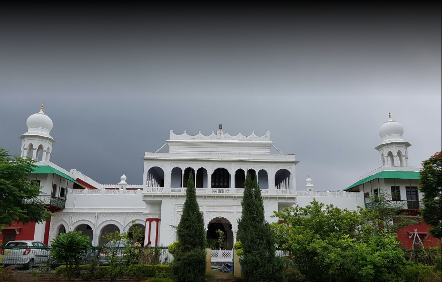 Muzammil Manzil